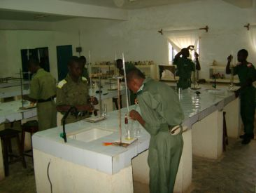 Lab